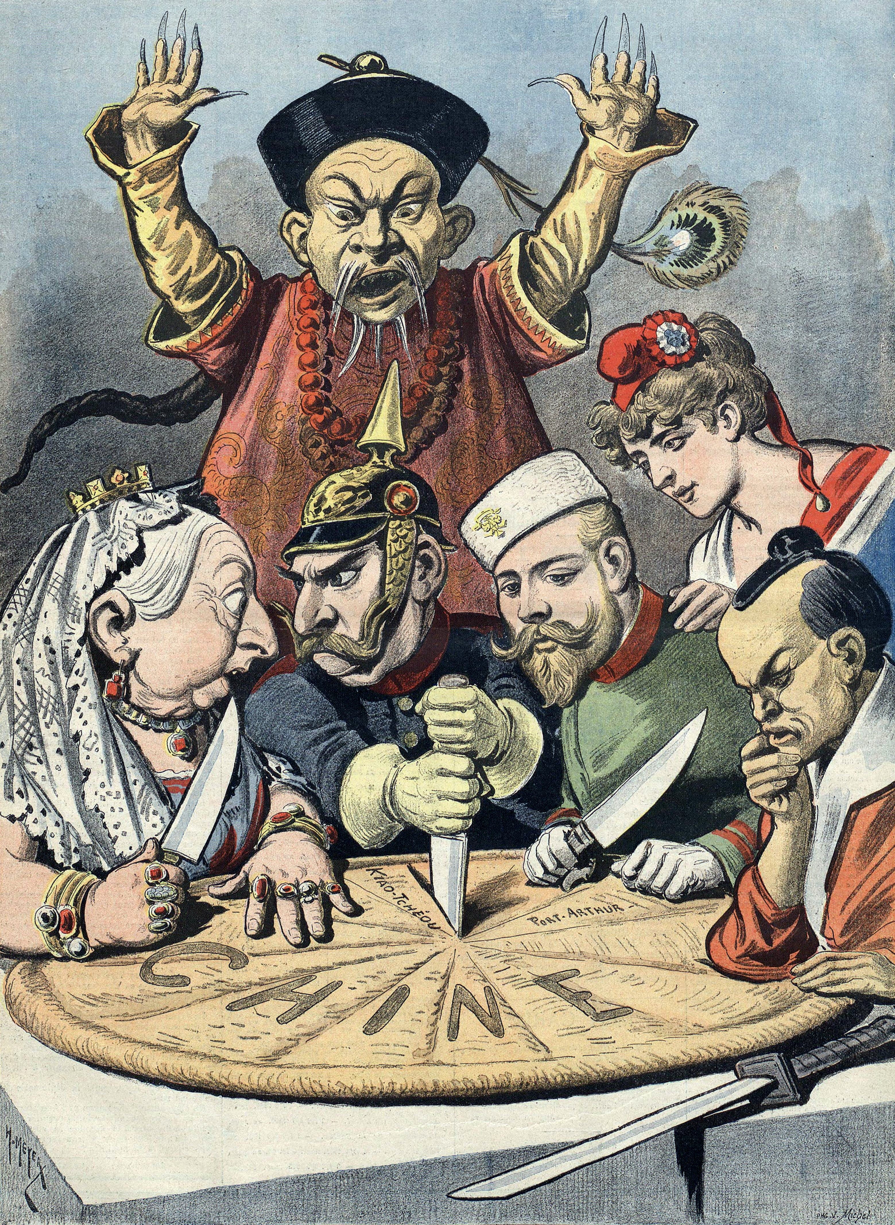 "China -- the cake of kings and... of emperors" (a French pun on king cake and kings and emperors wishing to "consume" China). French political cartoon from 1898. A pastry represents "Chine" (French for China) and is being divided between caricatures of Queen Victoria of the United Kingdom, William II of Germany (who is squabbling with Queen Victoria over a borderland piece, whilst thrusting a knife into the pie to signify aggressive German intentions), Nicholas II of Russia, who is eyeing a particular piece, the French Marianne (who is diplomatically shown as not participating in the carving, and is depicted as close to Nicholas II, as a reminder of the Franco-Russian Alliance), and a samurai representing Japan, carefully contemplating which pieces to take. A stereotypical Qing official throws up his hands to try and stop them, but is powerless. It is meant to be a figurative representation of the Imperialist tendencies of these nations towards China during the decade.